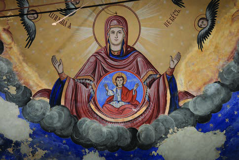 Saint Mary Platytera from Sts Constantine and Helen Church in Sinagovtsi